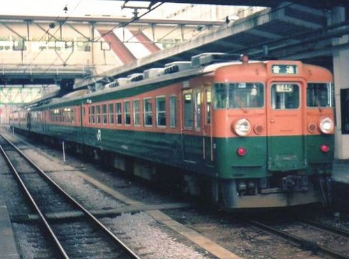 East Japan Railway Company, EMU type 165 Original Design of JNR at Takasaki Sta.